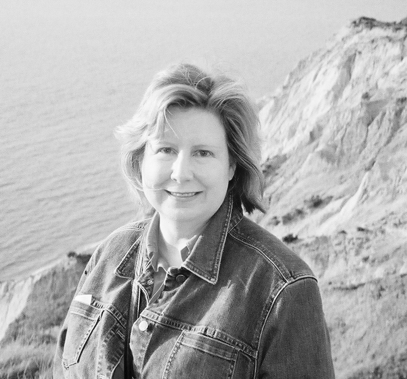 Amy Hill Hearth — novelist and feminist of the United States.